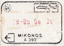 Greek passport stamp from Mykonos Airport.